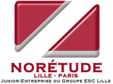 Logo Norétude